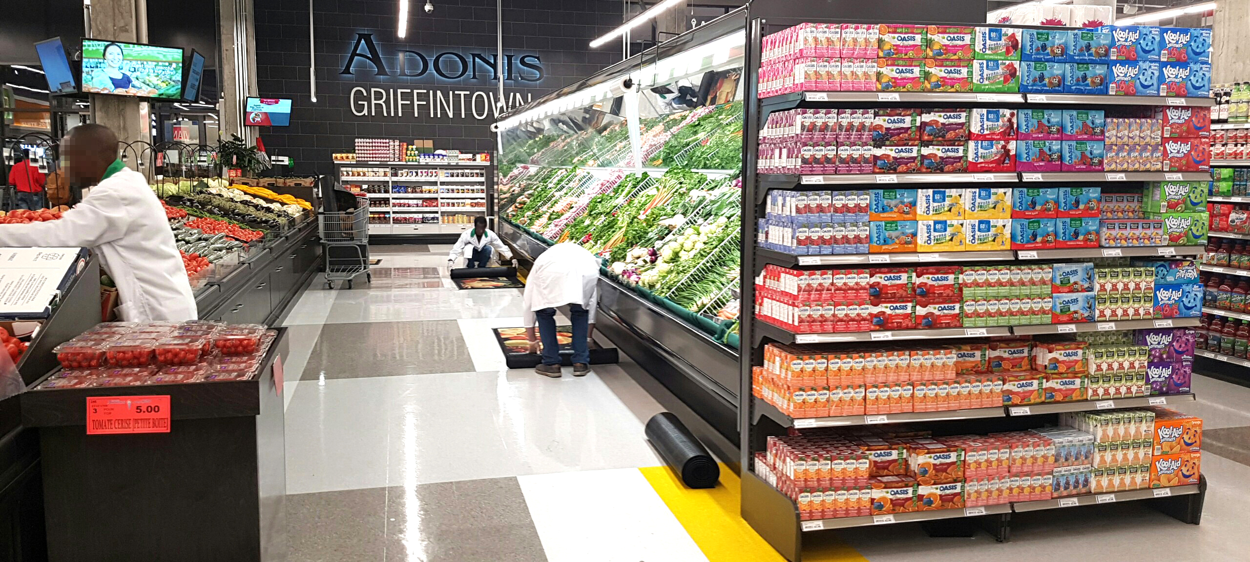 Ouverture du Marché Adonis Griffintown, 225 rue Peel, Montréal, 7 juillet 2016. Opening of Marché Adonis Griffintown supermarket on 7 July 2016 at 225 Peel Street in Montreal, Québec, Canada.